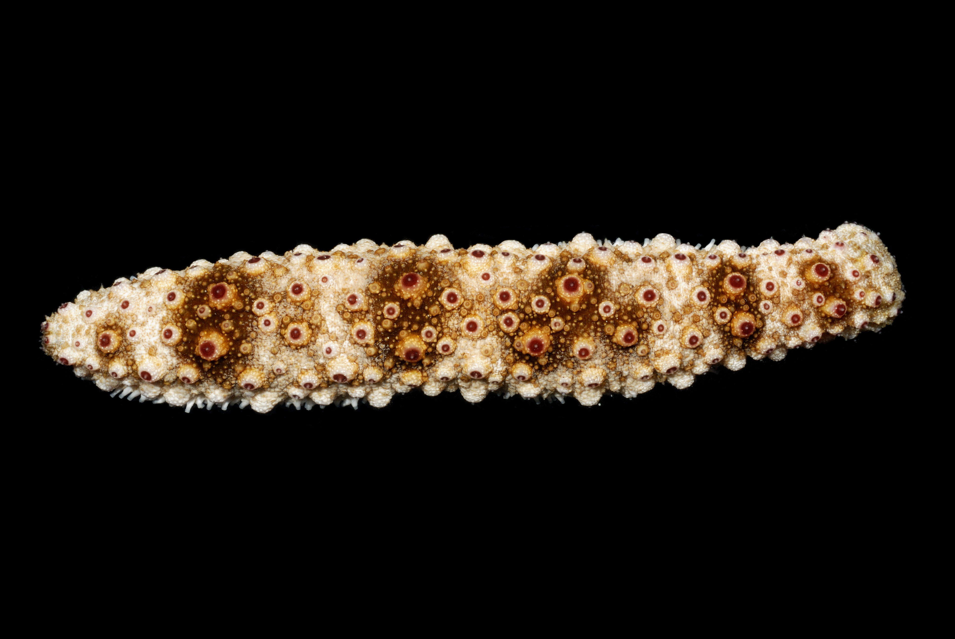 Holothuria pervicax. La Réunion.